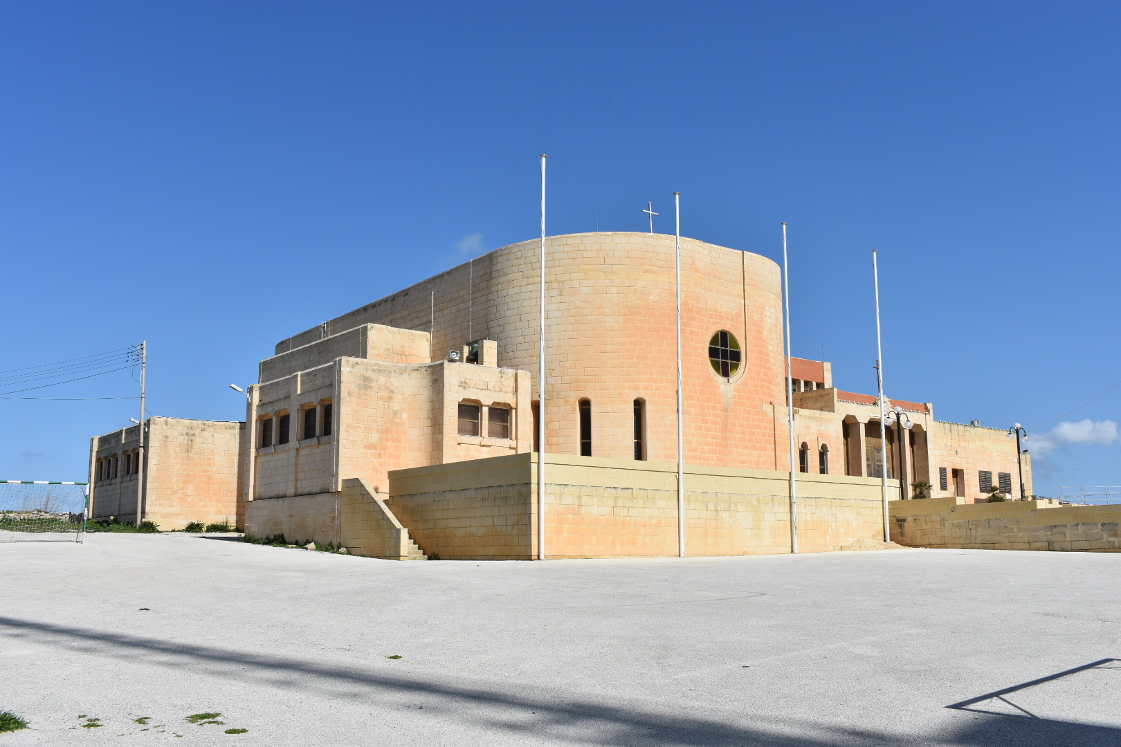 St Martin of Tours Parish Church